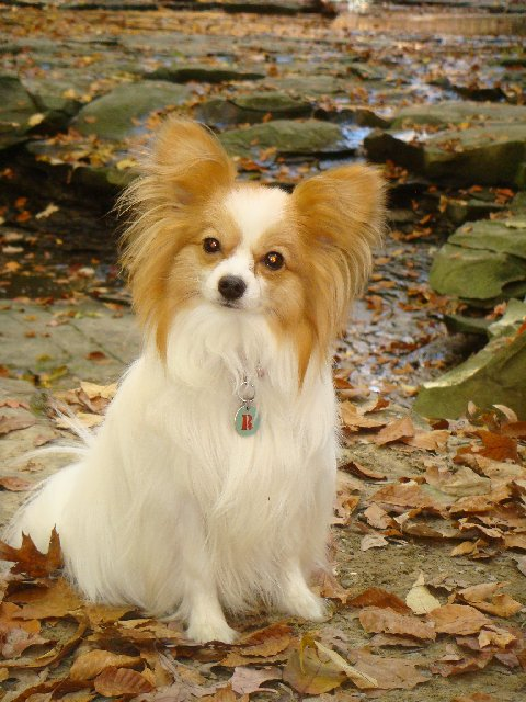 Papillon photo taken in 2008. He is a 2 year old named Riley and lives in northeast Ohio.